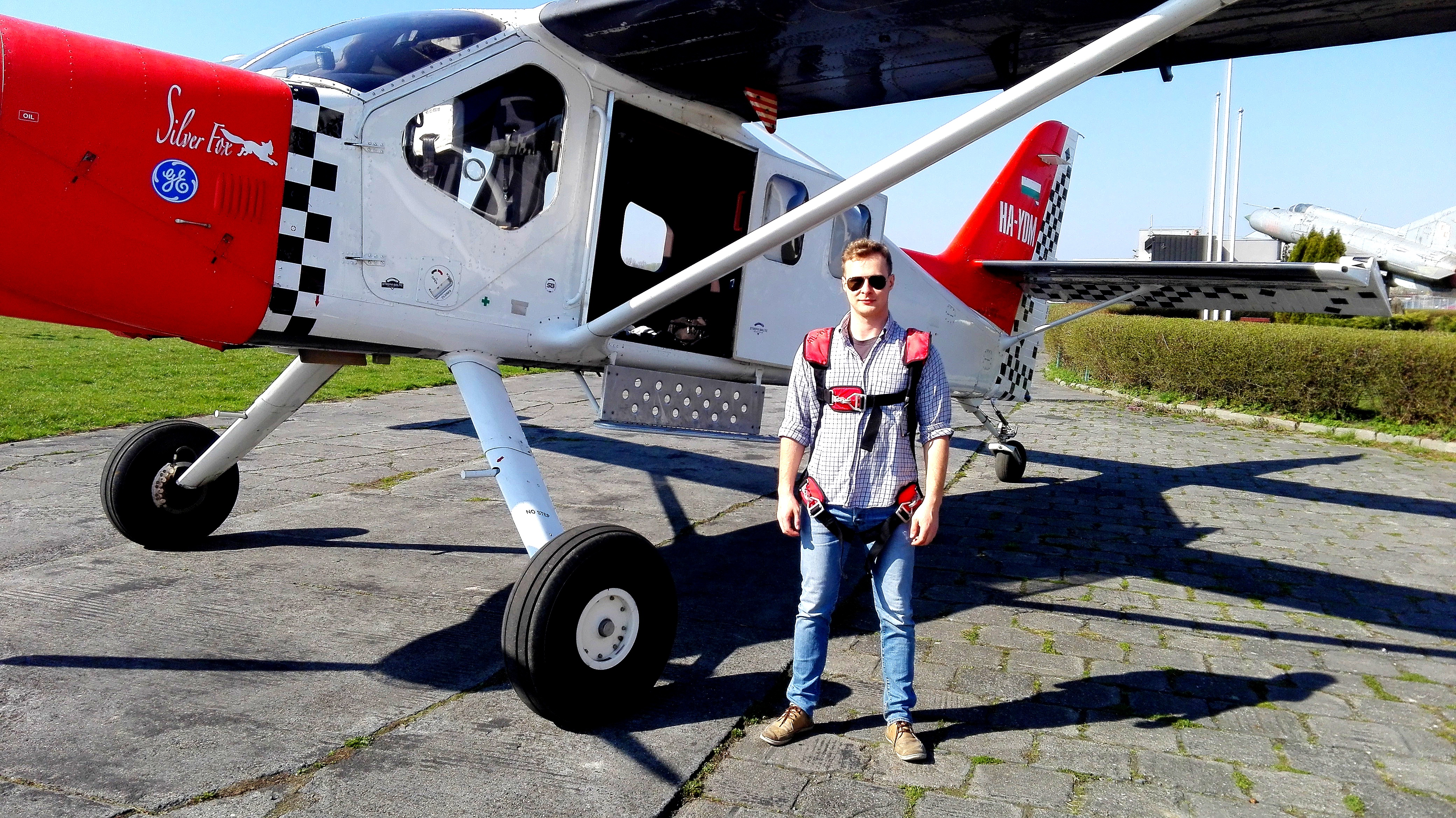 Technoavia SM92 Finist